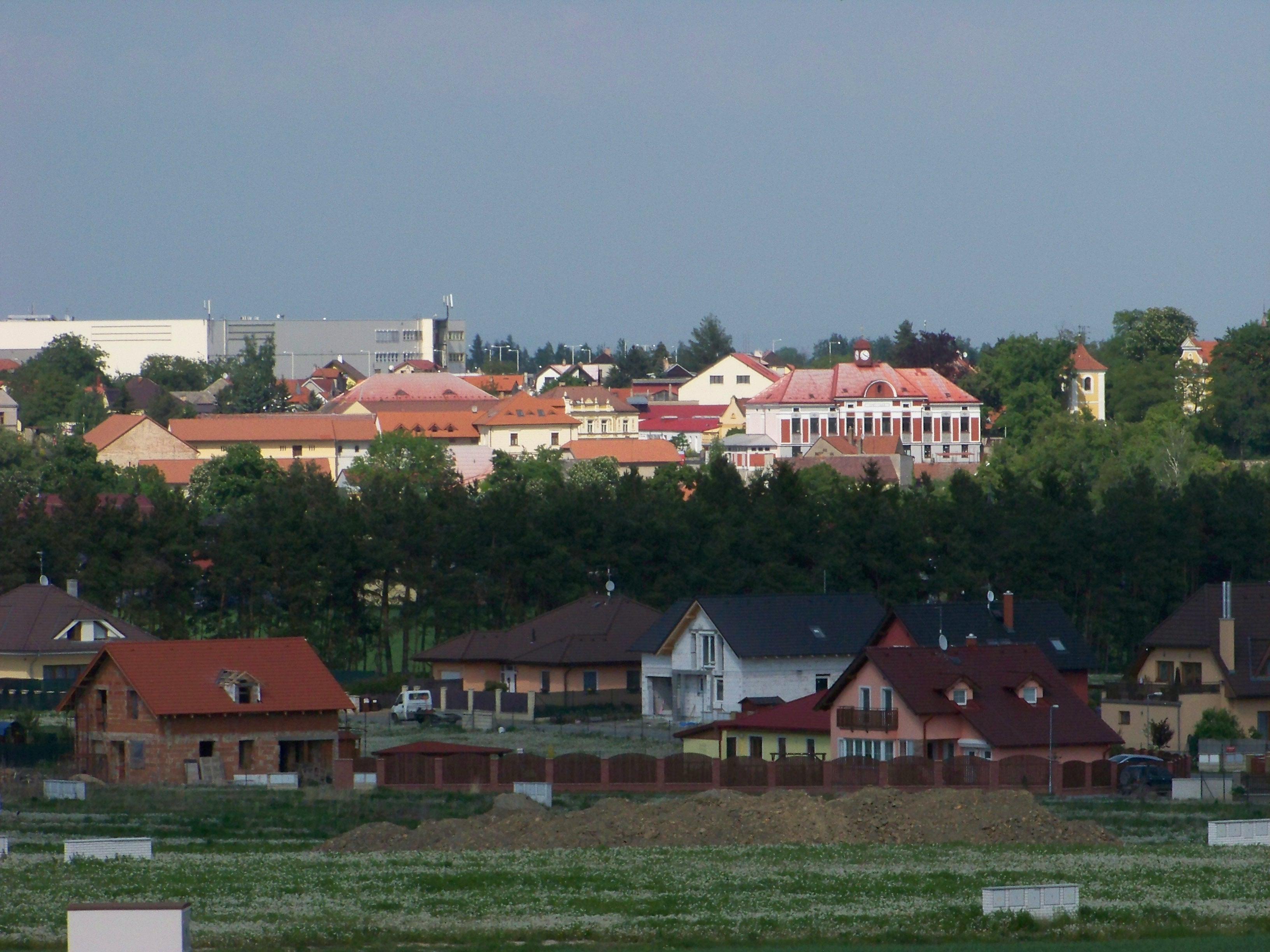 Jirny, Prague-East District, Central Bohemian Region, the Czech Republic. Seen from Tyršova street in Šestajovice.